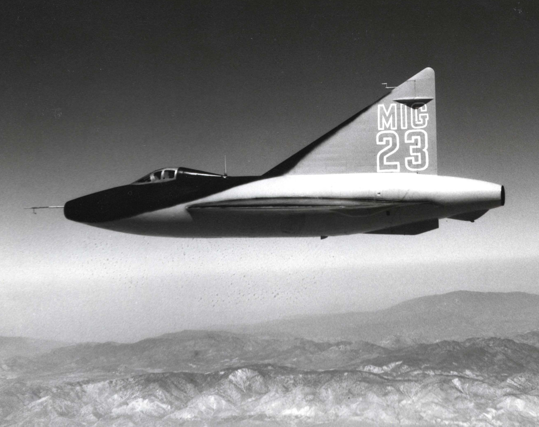 Convair XF-92A painted as a MiG-23 for the movie Jet Pilot (1957).